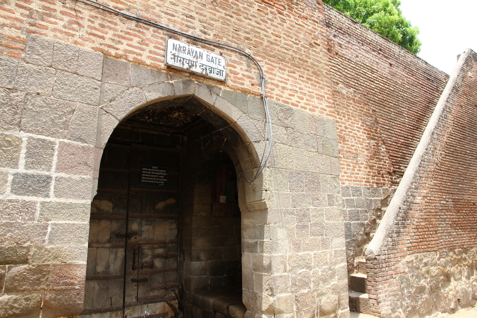 Shaniwar Wada palace Narayan's Gate